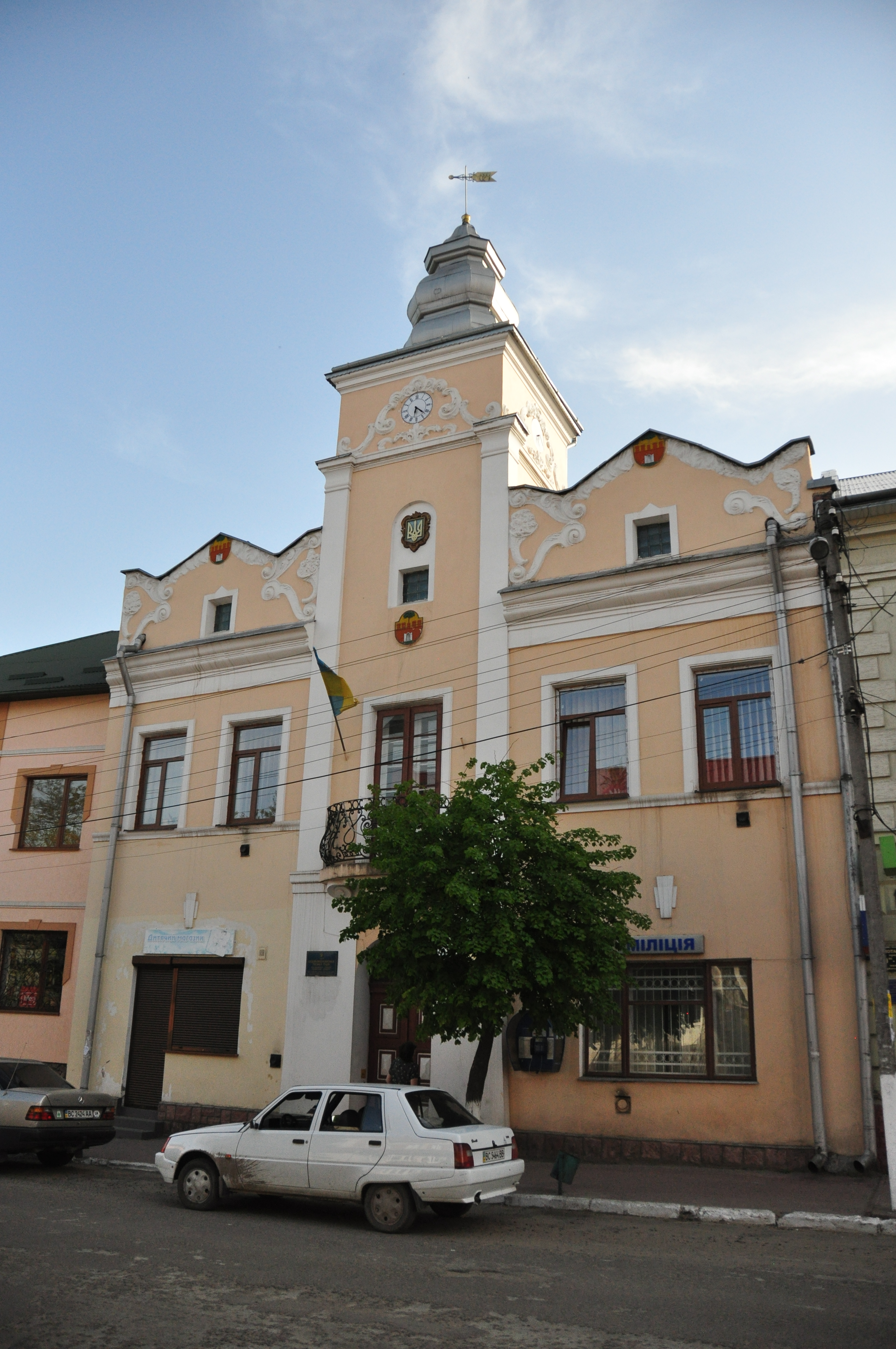 Town Hall in Sudova Vyshnia, Mostyska Raion, Lviv Oblast